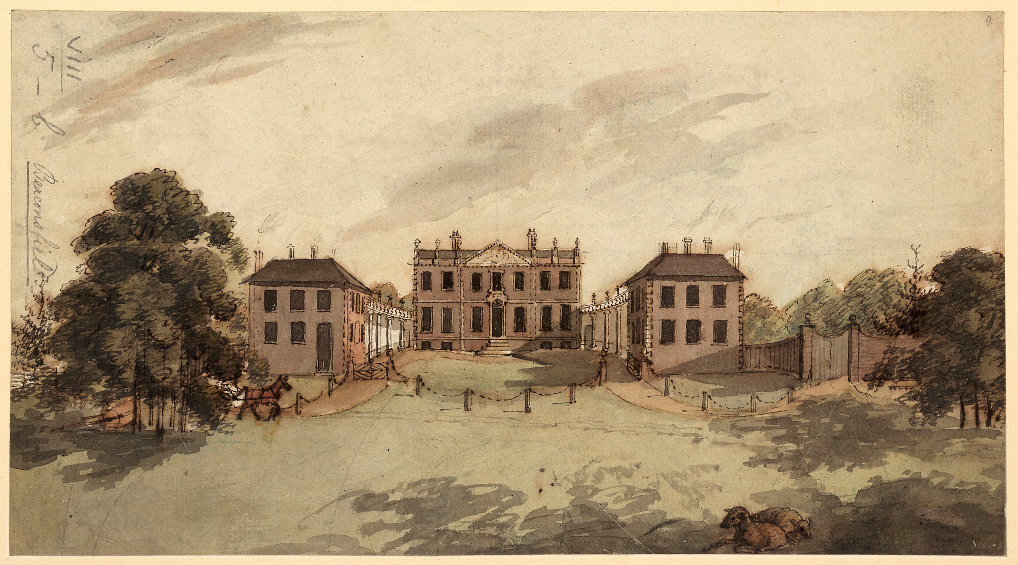 View of Gregories Estate, near Beaconsfield, watercolour, by Ravenhill. Politician Edmund Burke bought the home from the Waller family for £20,000 in 1768, and the costs of maintaining the estate were a burden on Burke. (Edmund Waller had inherited a family home named Hall Barn and moved his family there.) The house was destroyed by fire in 1813. Image courtesy of the British Library, London.[1]